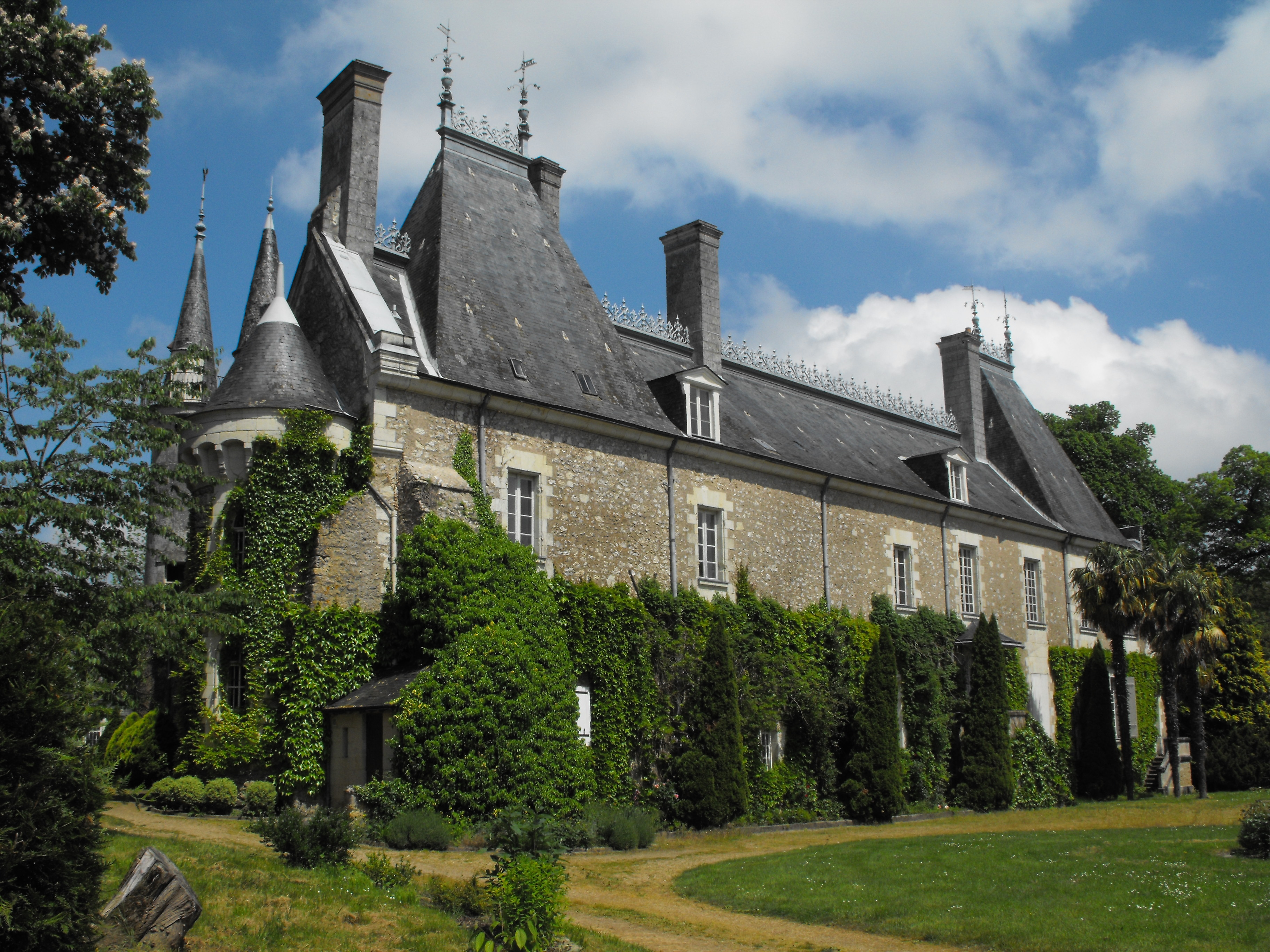 Photography about Milly Castle